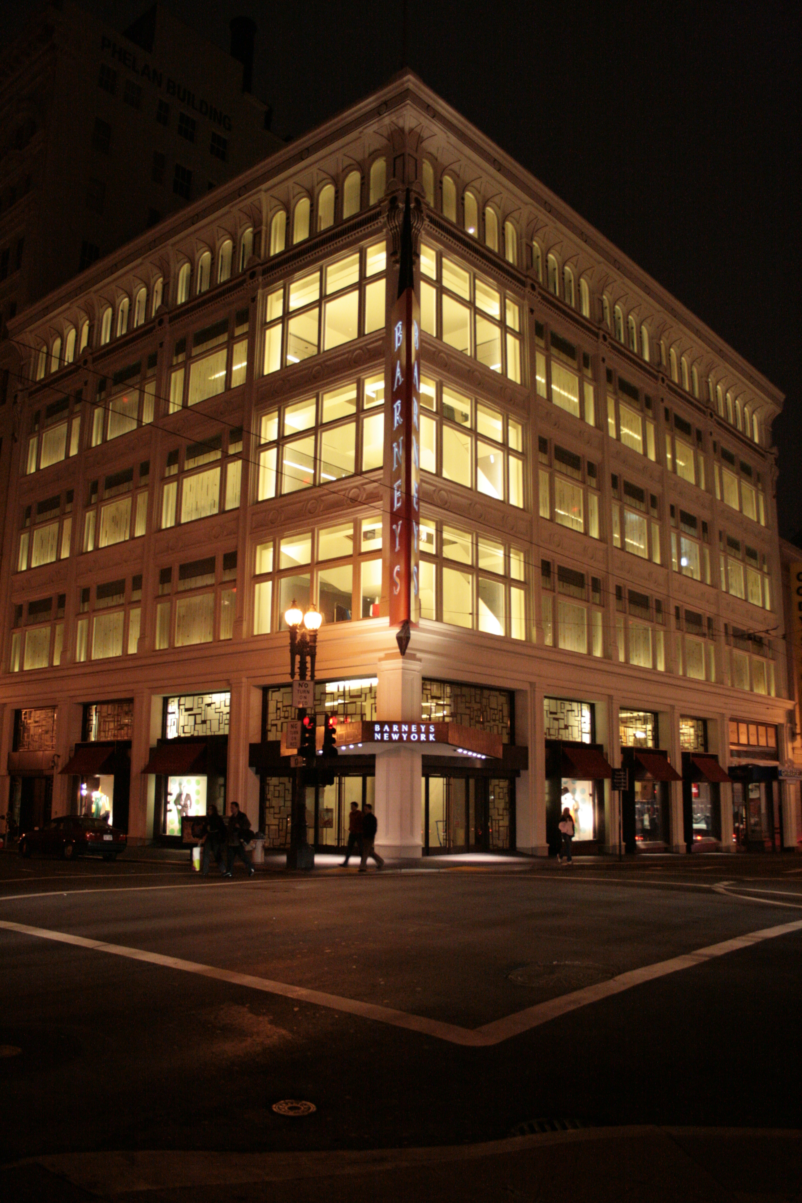 Barneys New York flagship